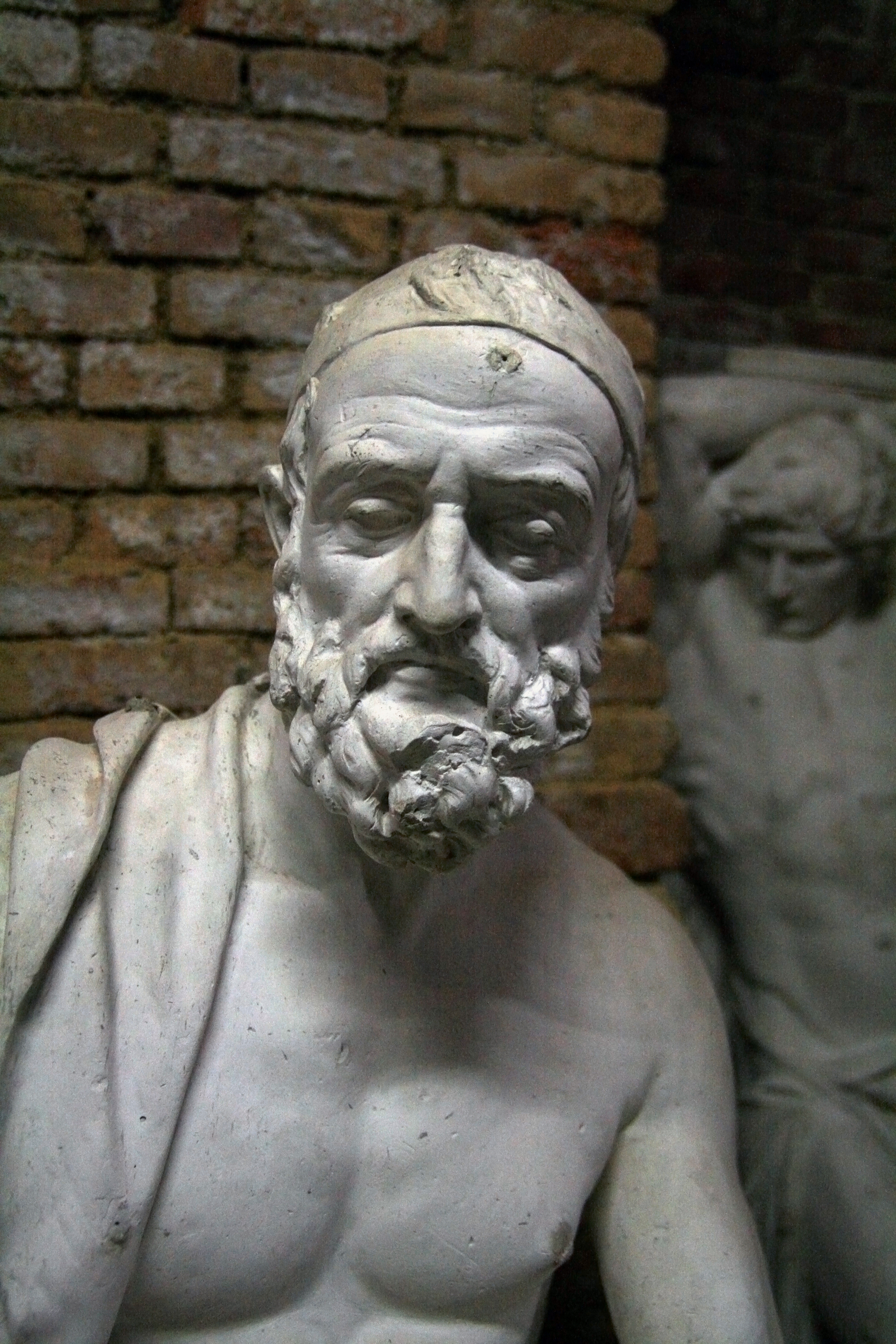 Models made of gypsum of statues, reliefs etc. from the time of Historicism and Art Nouveau (late 19th and early 20th century) for buildings at Ringstraße in Vienna, Austria, stored in the former wine cellar of Hofburg Palace (Leopold Wing). Dieses Bild wurde anlässlich des österreichischen Tags des Denkmals 2012 in Wien eingereicht.